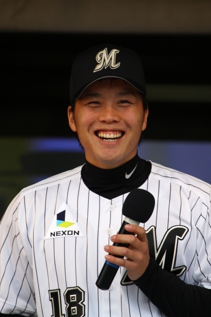 Takahiro Fujioka, pitcher of the Chiba Lotte Marines, at Chiba Marine Stadium.